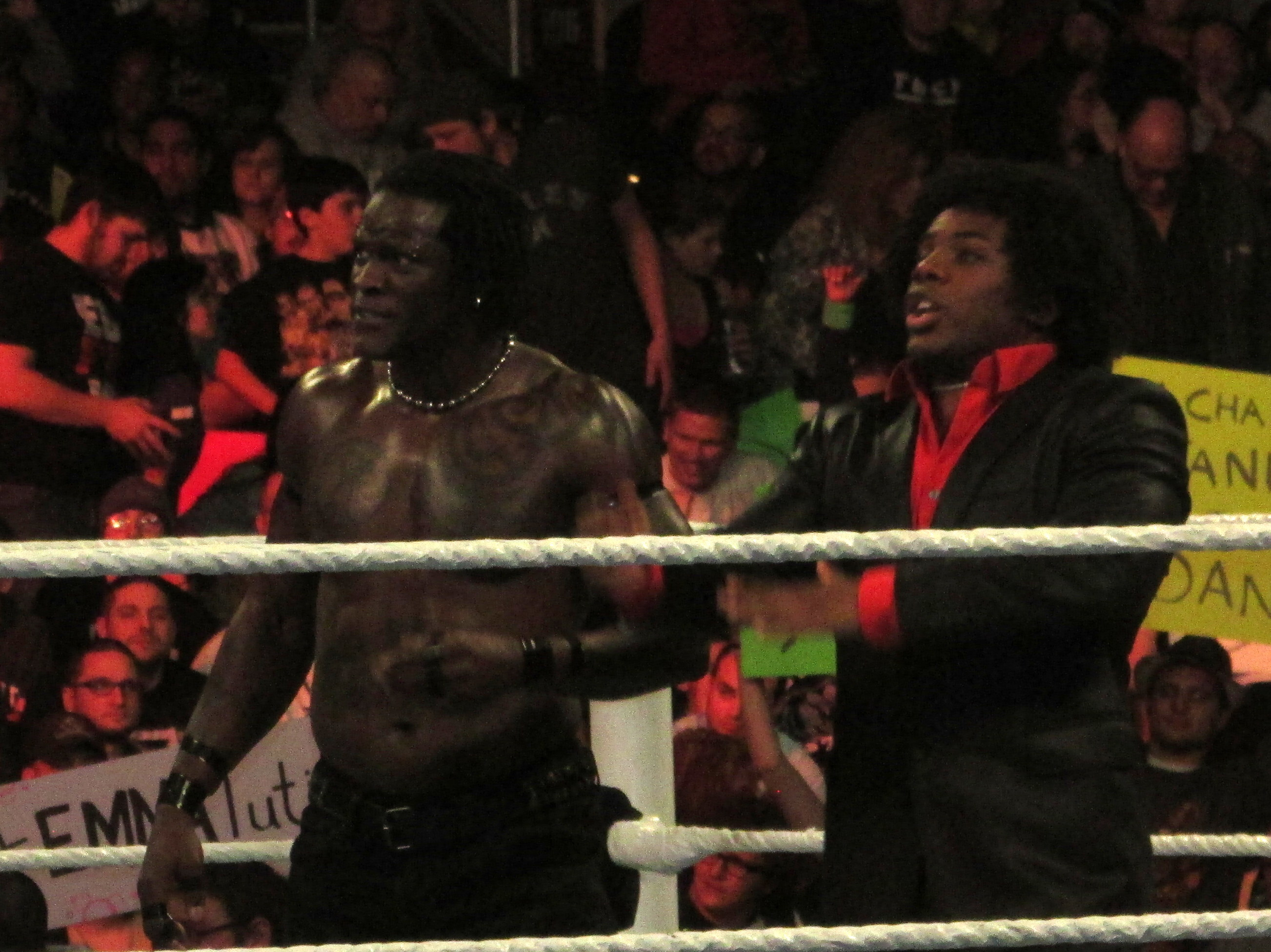 R-Truth (left) and Xavier Woods (right) in the ring on Raw on January 27, 2014. Cropped from original image.